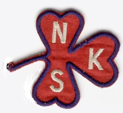 The old logo of Norske Kvinners Sanitetsforening of 1896.